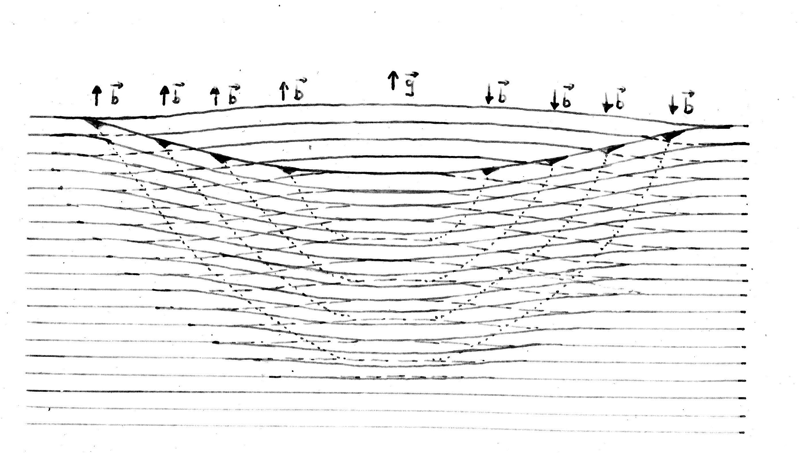 Scheme of a fourfold glide step with dislocations in the glide plane